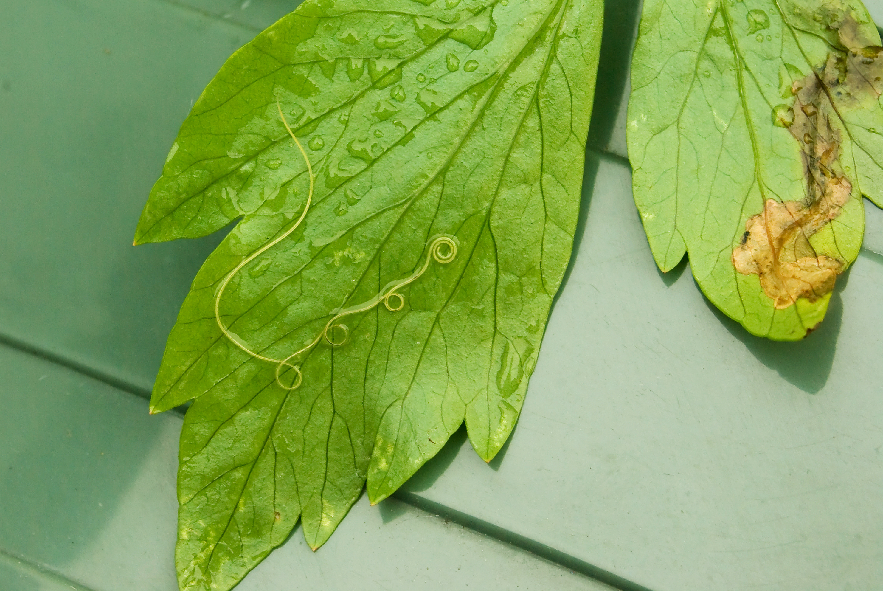 nematodes or roundworms - roundworm on celery leaf